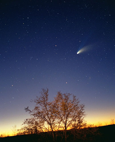 Photo of the comet Hale-Bopp above a tree. This picture was taken in the vicinity of Pazin in Istria/Croatia during a short easter holiday. The tree was illuminated using a small flashlight. The photo was taken using the following equipement: Lens: Nikon 35mm f/2 Film: Kodak Royal Gold 400 Exposure: 2 min at f/2